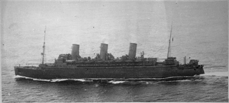 RMS Empress of Scotland underway as a troopship